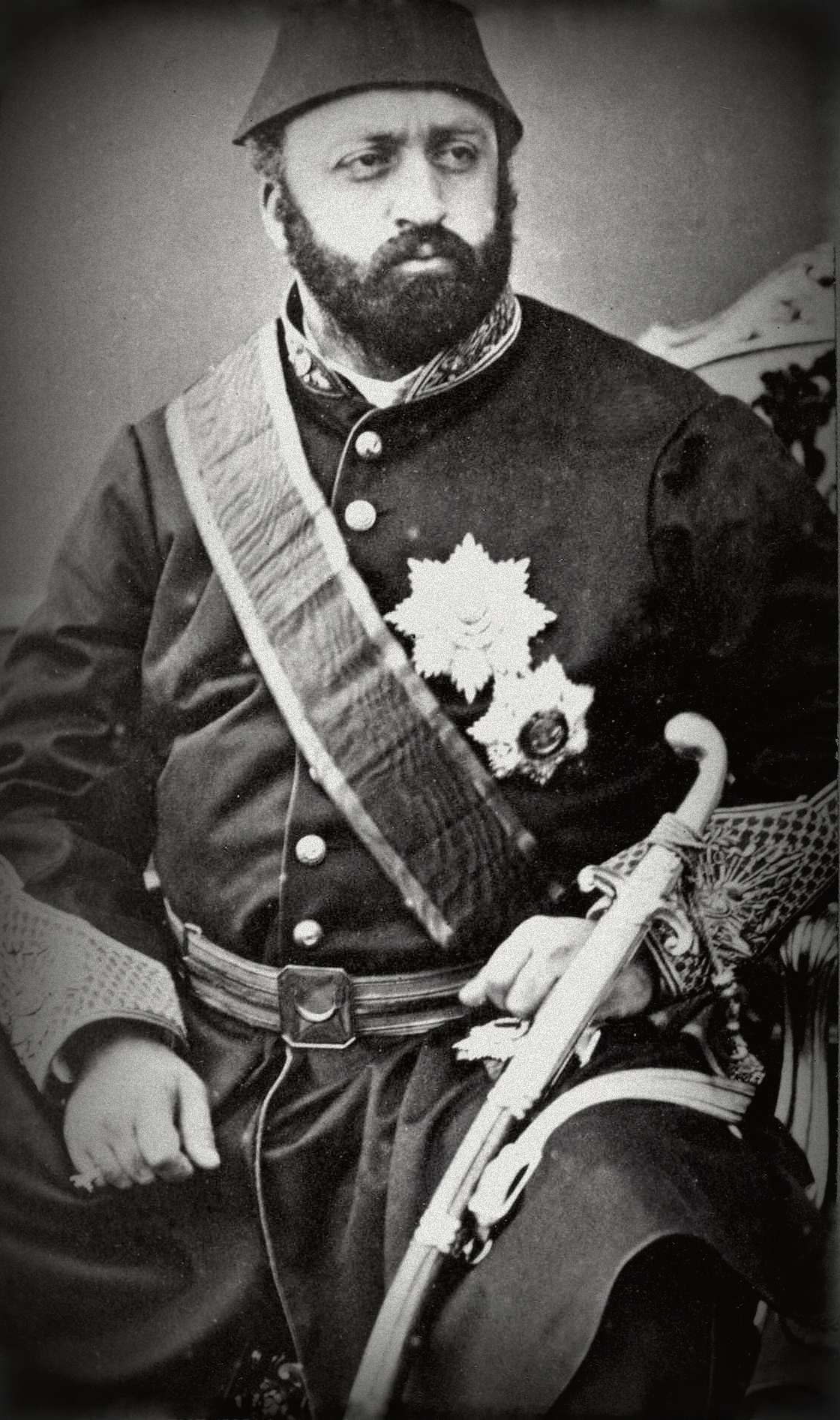 32nd Sultan of the Ottoman Empire and 111. caliph of Islam ; Abdullaziz I. (1830-1876)